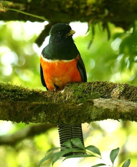 Orange-bellied Trogon (Trogon aurantiiventris). A male at the Entrance Road to Monteverde Reserve, Costa Rica on 18 June 2008.